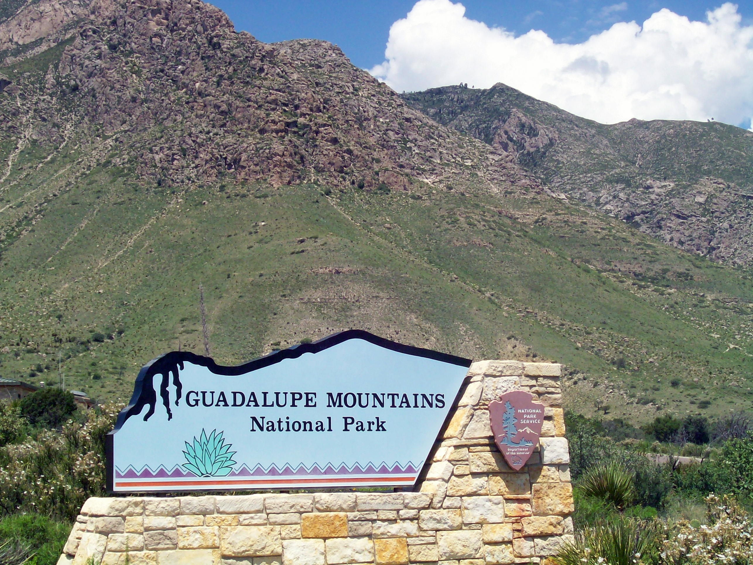 Sign at the entrance to Guadalupe Mountains National Park, Texas